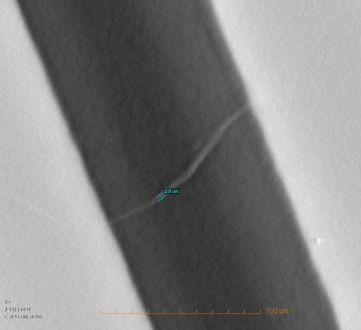 Silver Migration XRay